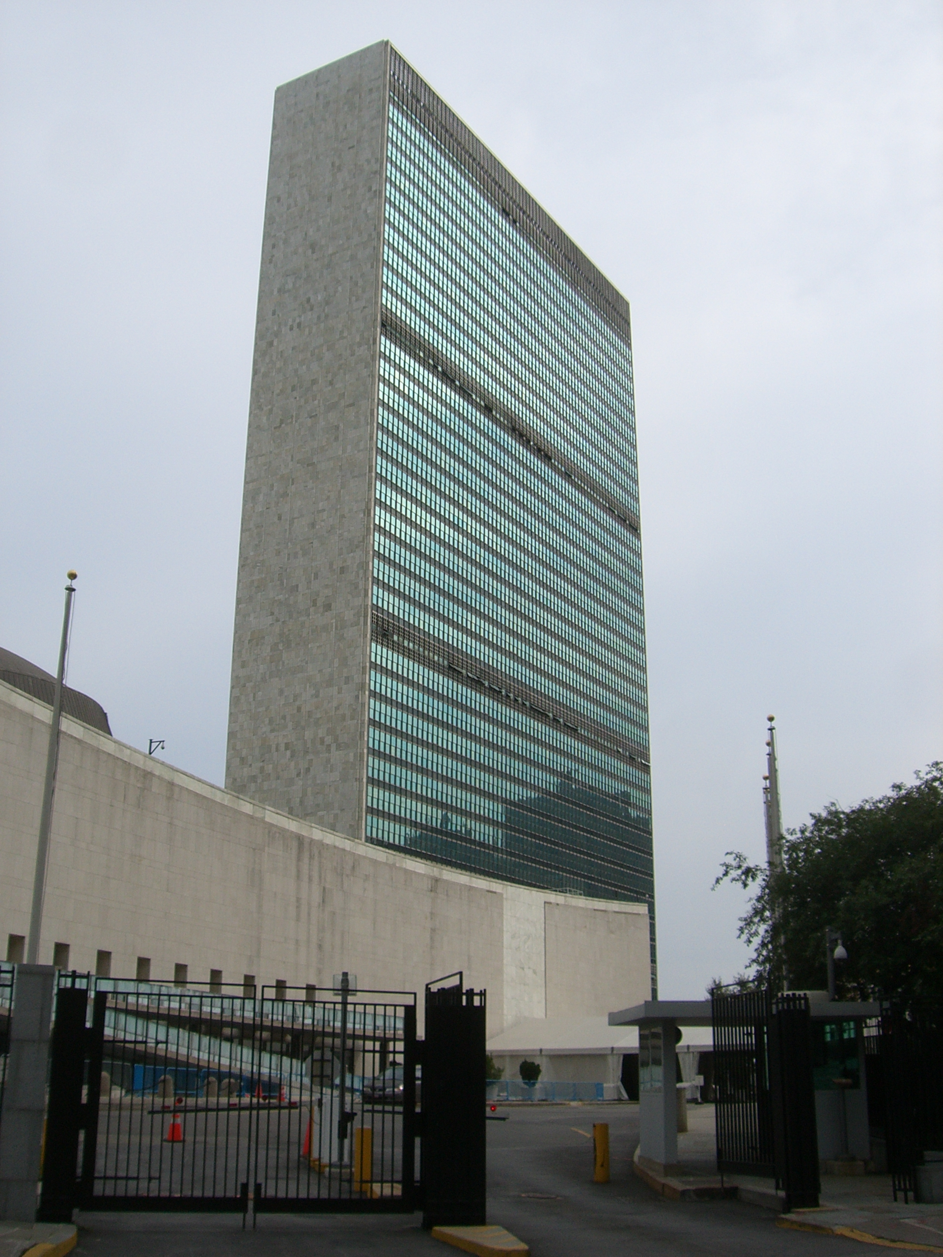 United Nations headquarters, Manhattan, New York, USA